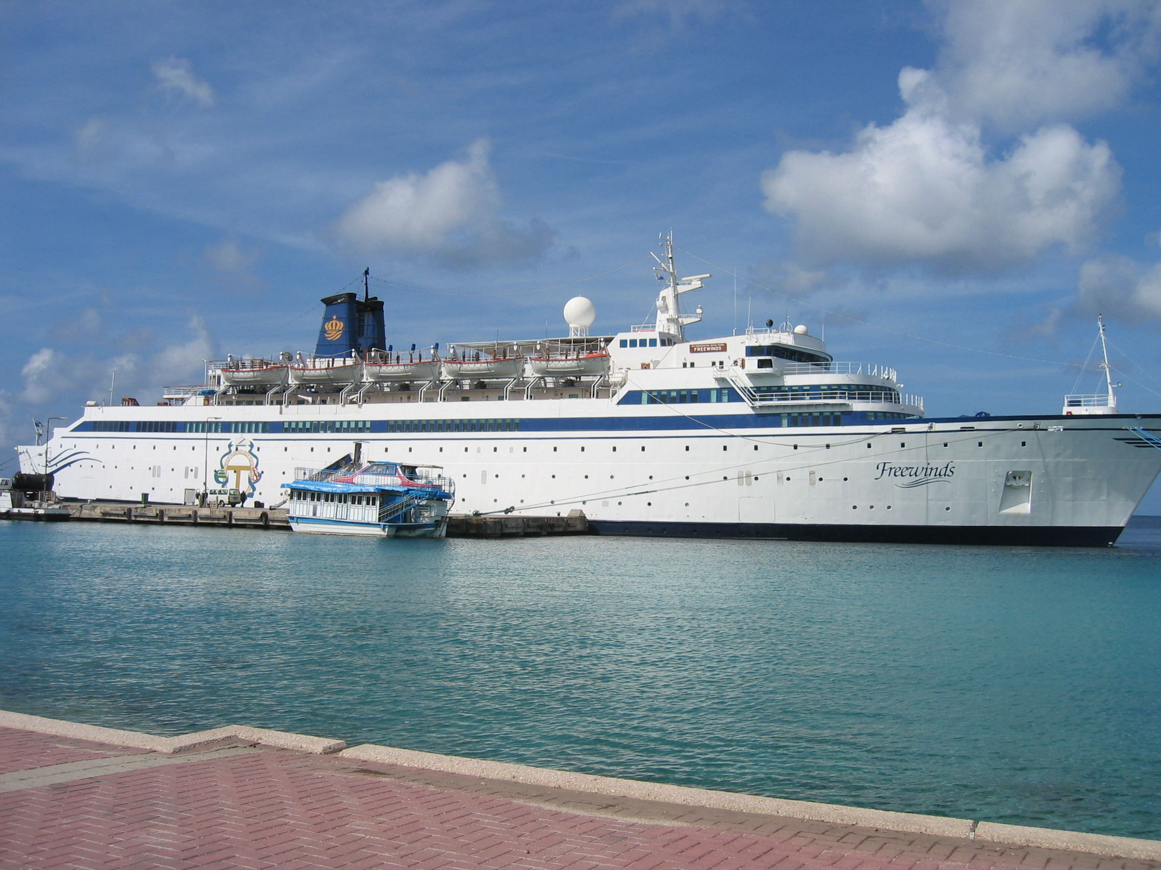 Starboard side of the Scientology cruise ship Freewinds, berthed at Bonaire, Netherlands Antilles.